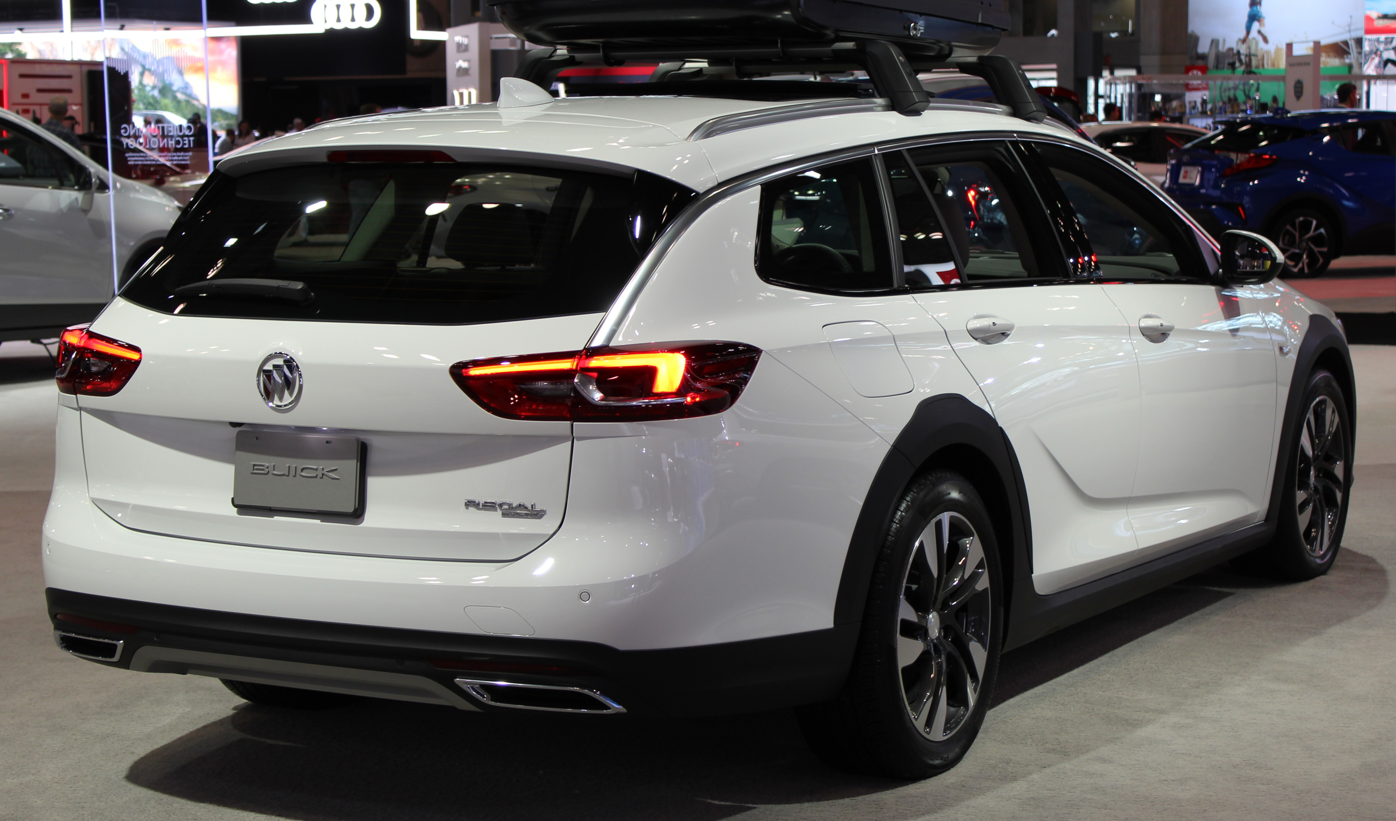 A 2019 Buick Regal TourX photographed during the 2019 New York International Auto Show, in Hudson Yards, Manhattan, NYC